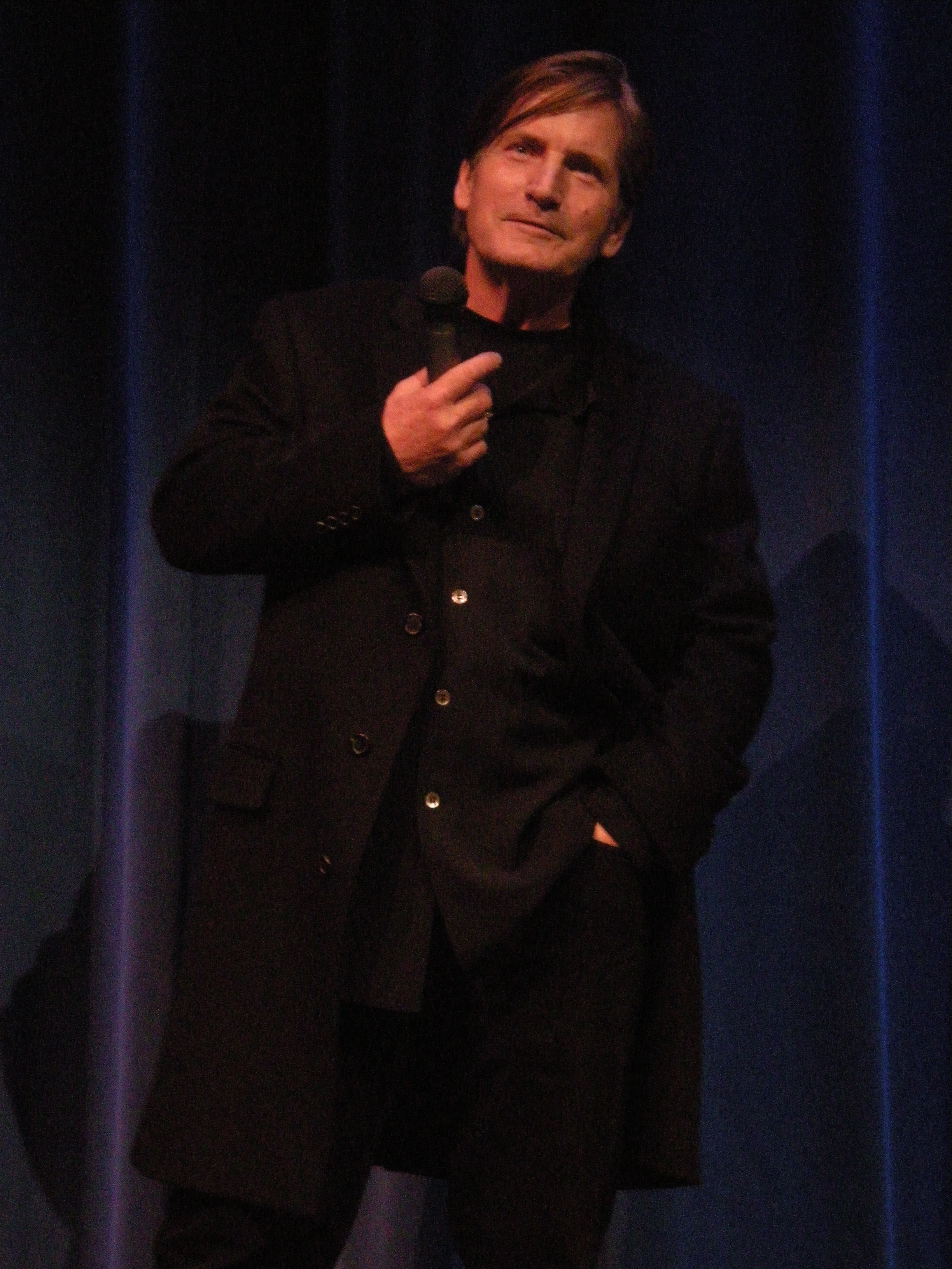 Joe Dallesandro after a showing of the documentary Little Joe (which is about him), 2009 Seattle International Film Festival.